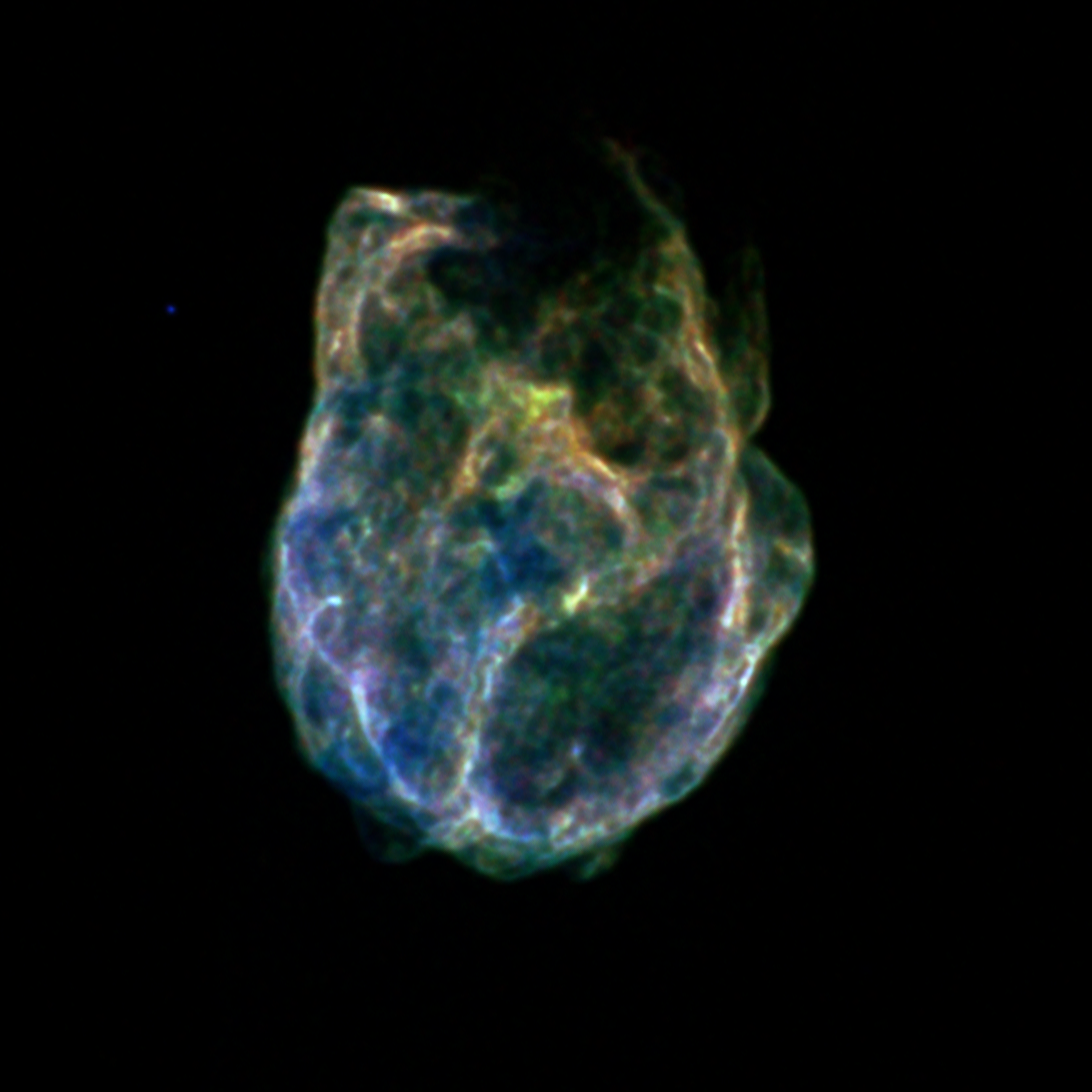 crop of File:N132D Optical & X-Ray Separate.png